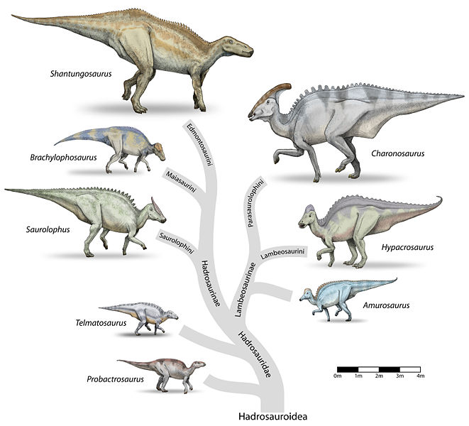 A clickable image of the Hadrosauroidea. Illustration by User:Debivort. The Hadrosaurids comprise the dinosaurs commonly known as "duck-billed" dinosaurs. They were common herbivores during the Cretaceous period, and prey to therapods such as Tyrannosaurus. Spectacular fossils of hadrosaurs have been found, including mummified specimens in which soft tissue was preserved, skin impressions, tracks of footprints, and nest sites that demonstrate the animals had parental care of offspring. Animals are shown to scale. A crisp diagram showing the evolutionary relationships between the tribes of the Hadrosauroidea, with representative individuals shown to scale. Conveys the diversity of the group. Every dinosaur shown has passed review for scientific accuracy at Wikipedia:WikiProject Dinosaurs/Image review. The individual drawings are genera, and the branches of the tree go down to tribe. All these groups were alive in the late Cretaceous, and are generally known only from a single fossil site Category:Approved dinosaur images Category:Approved dinosaur scale diagrams